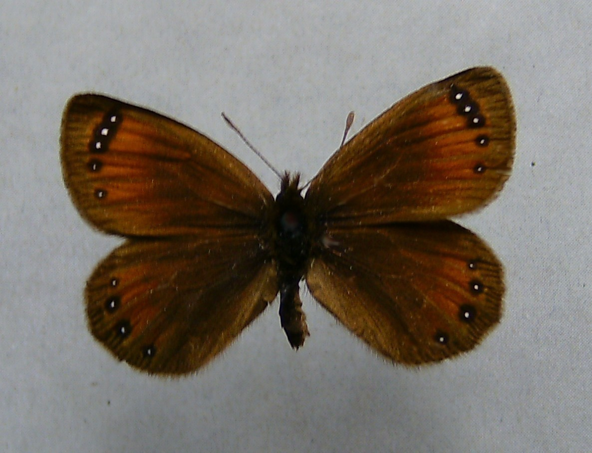 Erebia gorge